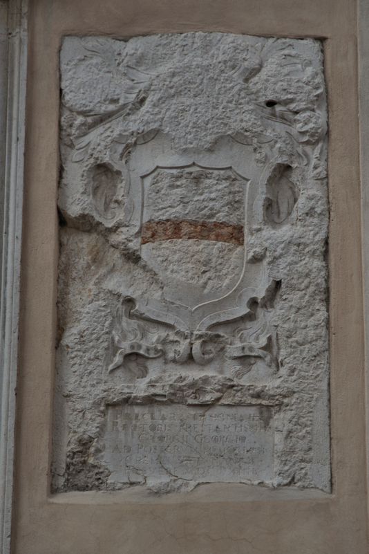 Coat of arm of Zorzi family on the town hall of Crema (Italy)